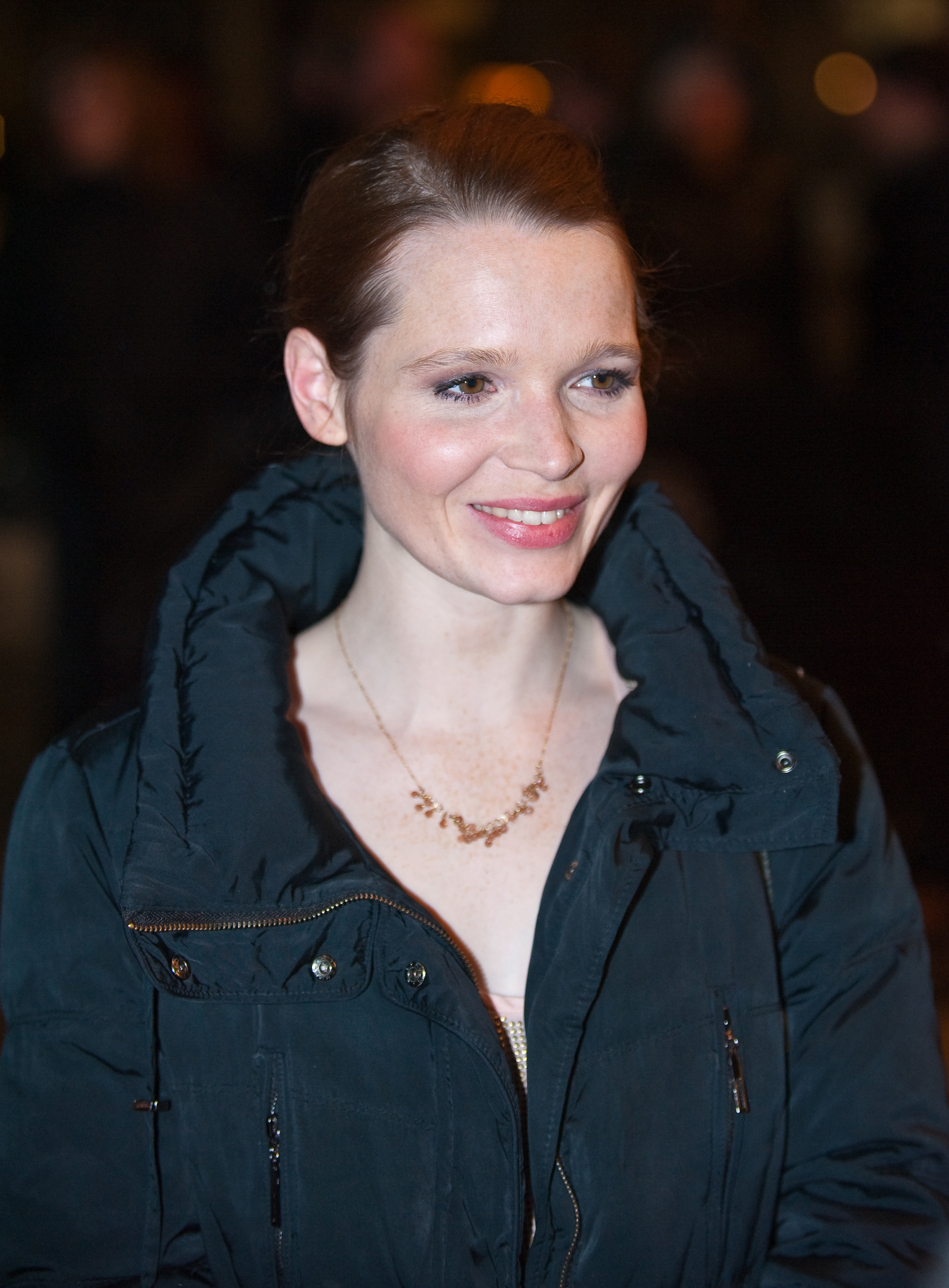 German actress Karoline Herfurth at the 60th Berlin International Film Festival